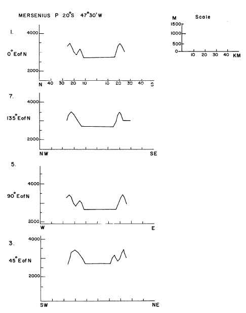 Mersenius crater cross section